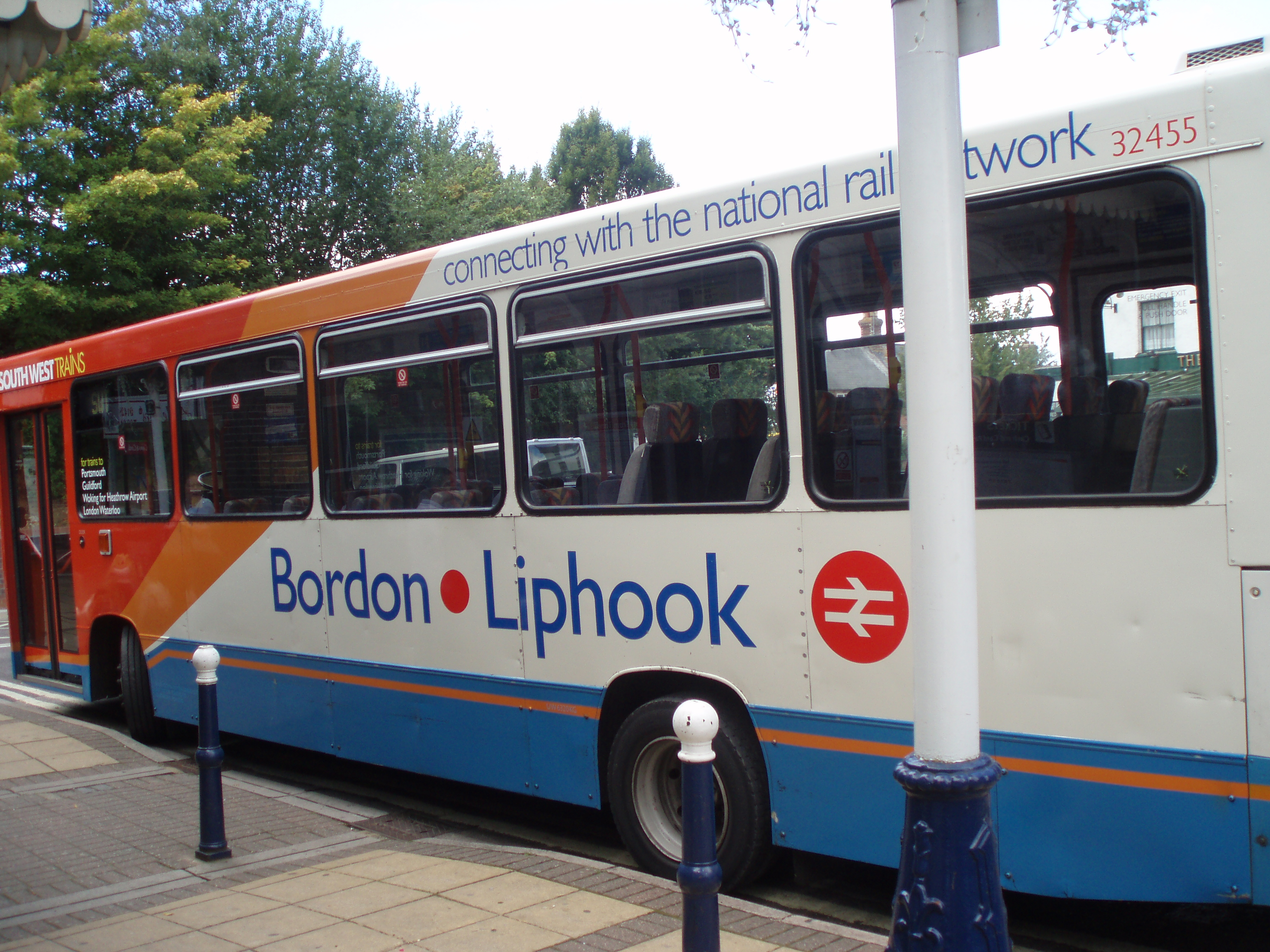 Photo taken 13th August 2007